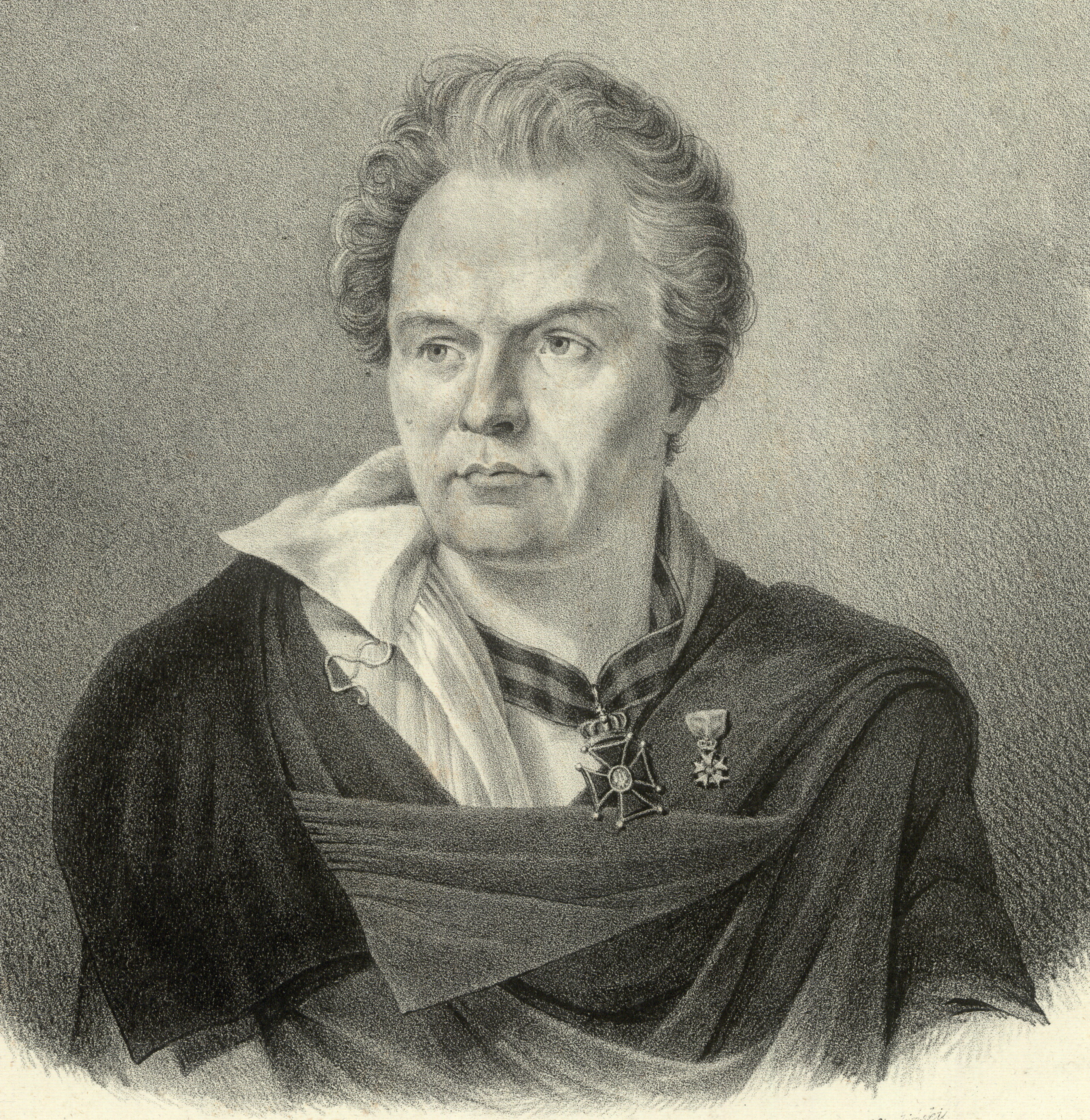 Jan Zygmunt Skrzynecki (1787–1860), Polish general, Commander-in-Chief of the November Uprising (1830–1831), portrayed in a litography by a Polish artist Jan Nepomucen Żyliński (c. 1831).